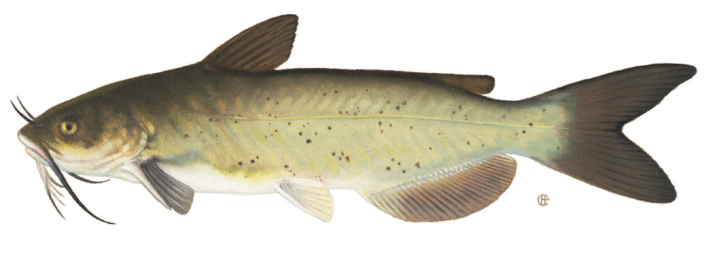 Ictalurus punctatus